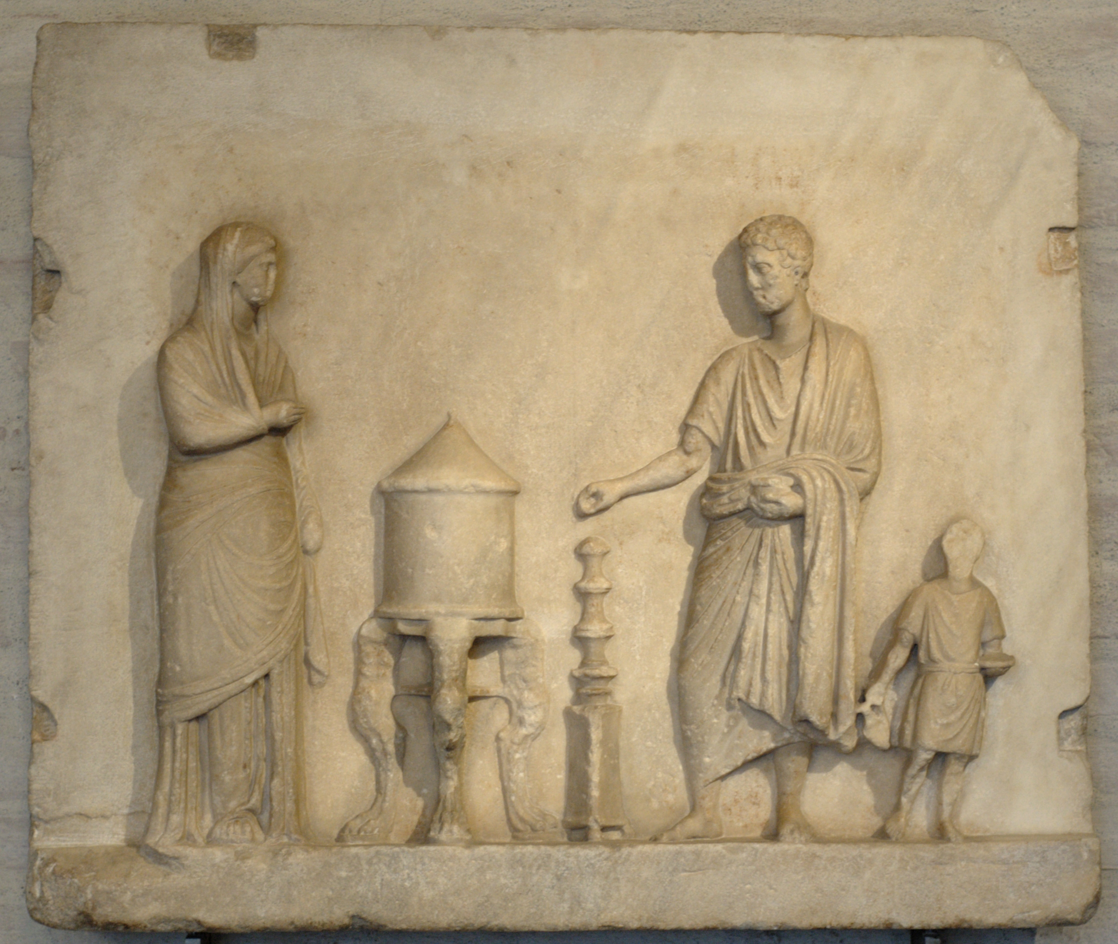 Roman relief. Priestress (?), cult container put on a three-feet support, censer and sacrificing man, small slave with can and bowl. 1st century CE.